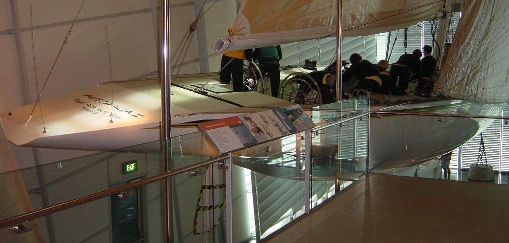 Australia II as seen in the WA Maritime Museum